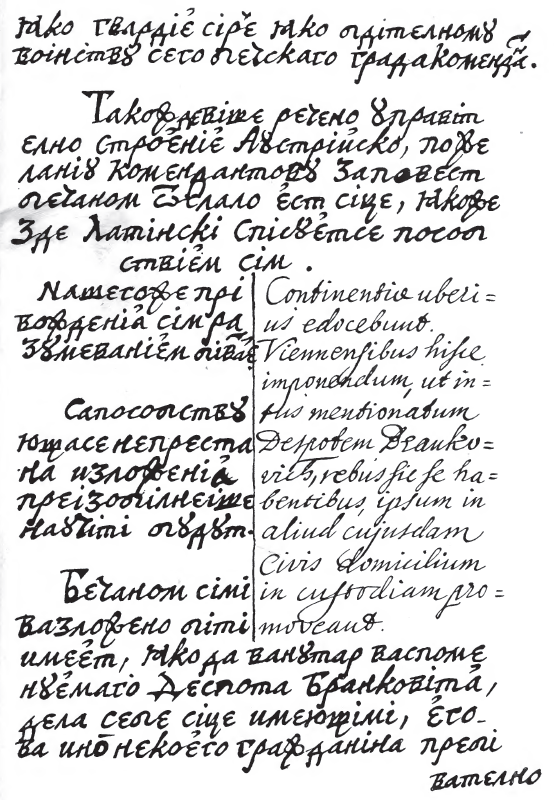 A page from the fifth volume of the manuscript of the Slavo-Serbian Chronicles